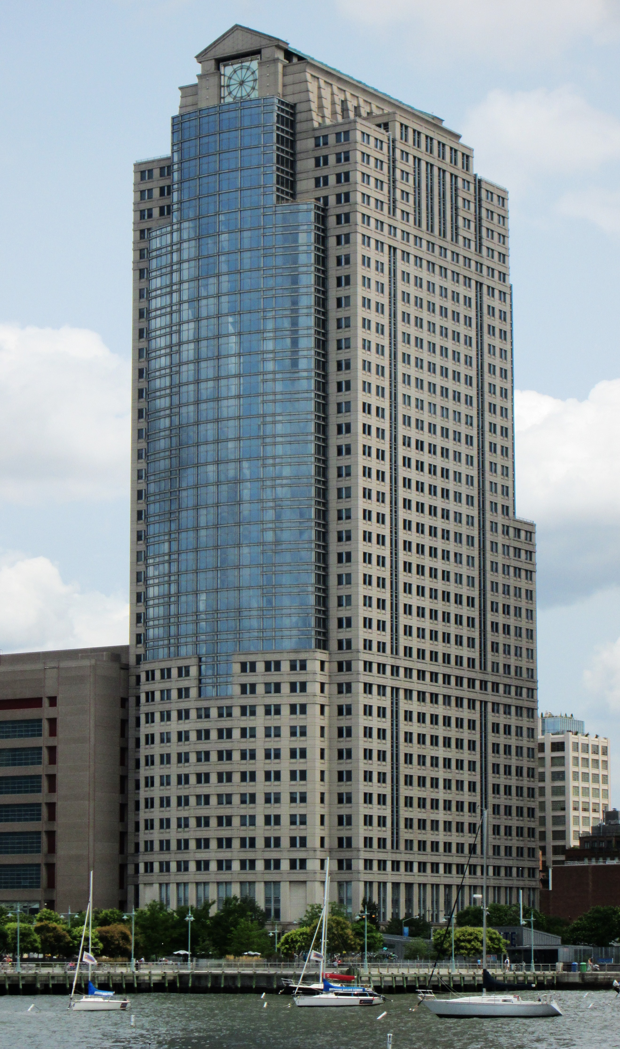 388 Greenwich Street, which also faces N. Moore and West Streets in the TriBeCa neighborhood of Manhattan, New York City was built in 1989 and designed by Kohn Pederson Fox. It is seen here from the North Esplanade of Battery Park City. {Source: AIA Guide to 388NYC (5th ed.))